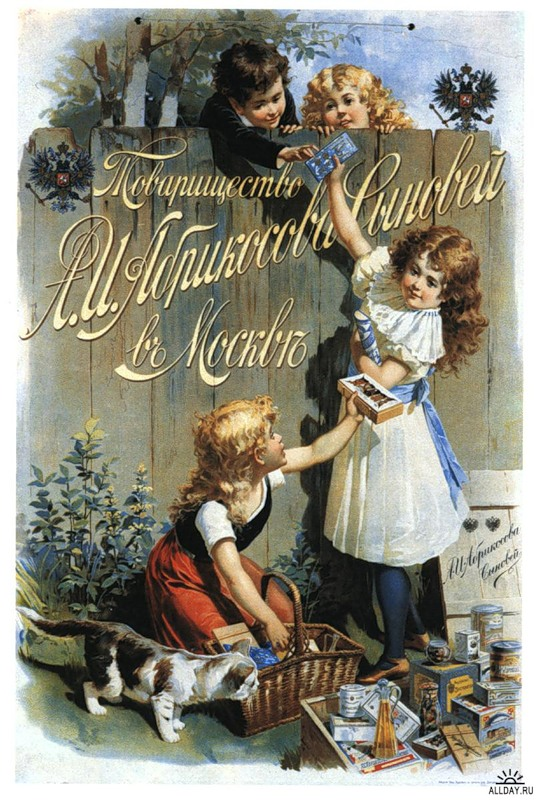 Advertising for Abrikosov and Sons Co. sweets, prior to 1918.